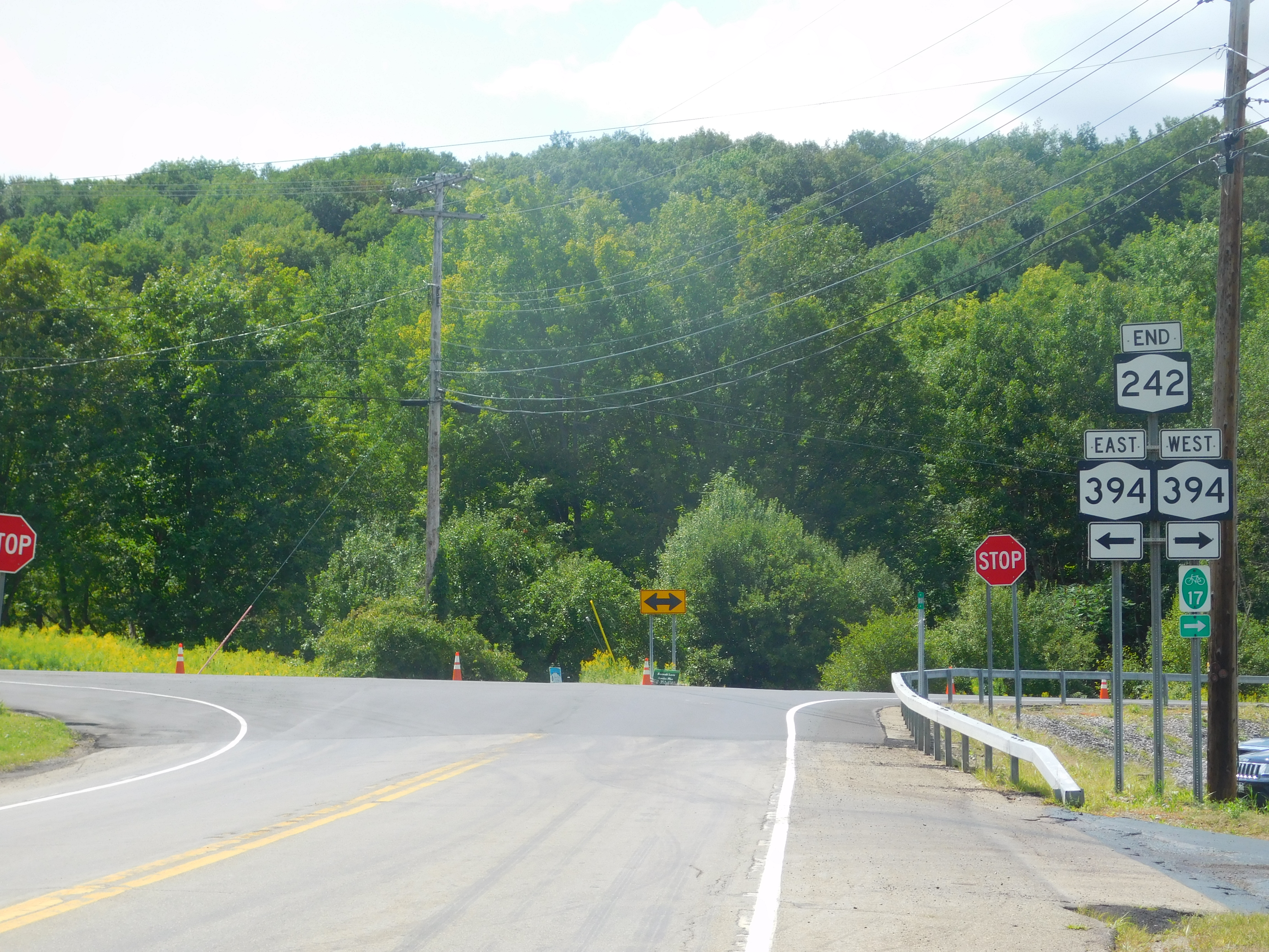 NY 242 approaching its end at NY 394 in Otto, New York